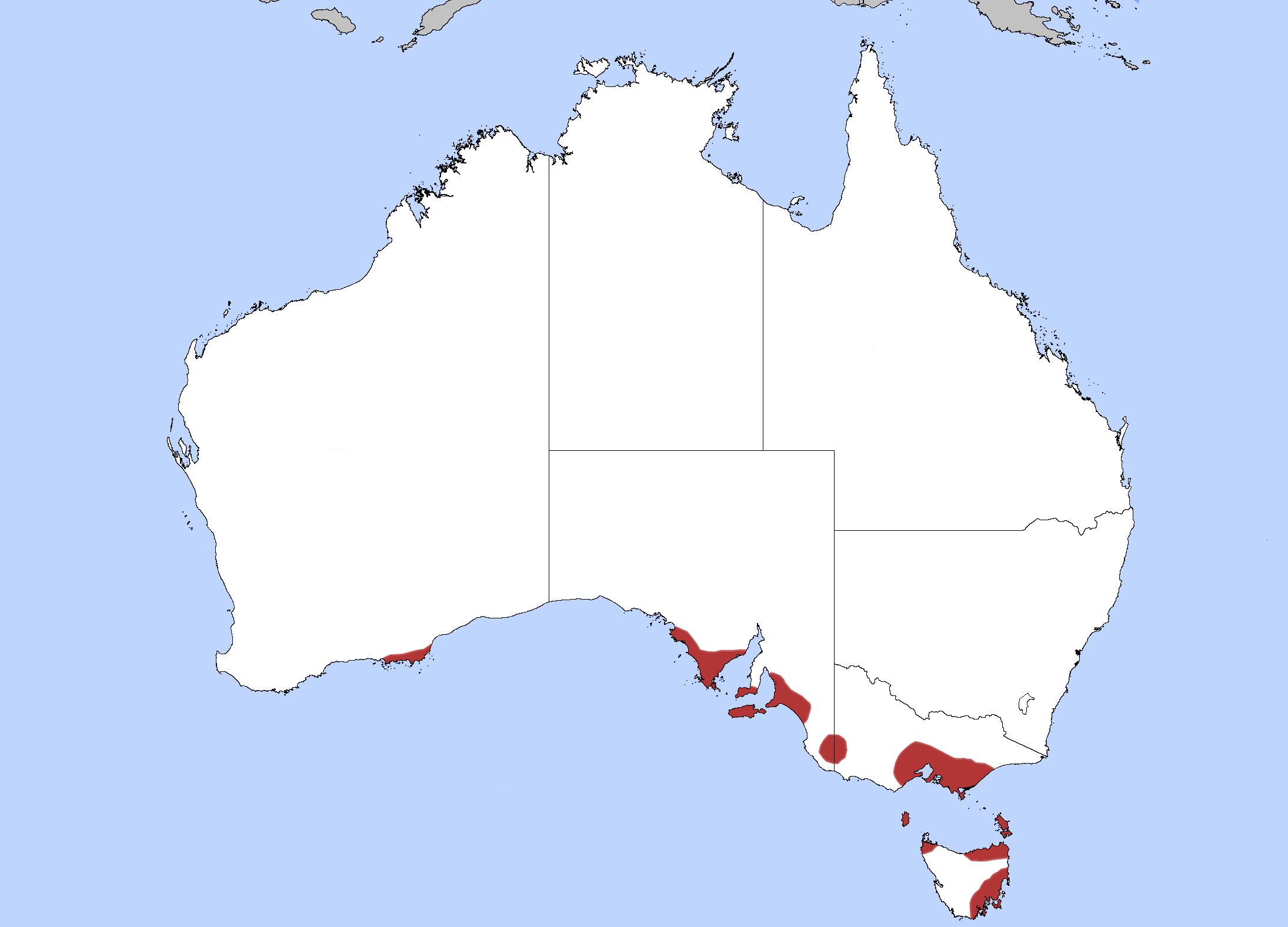 The Distribution of the Cape Barren Goose